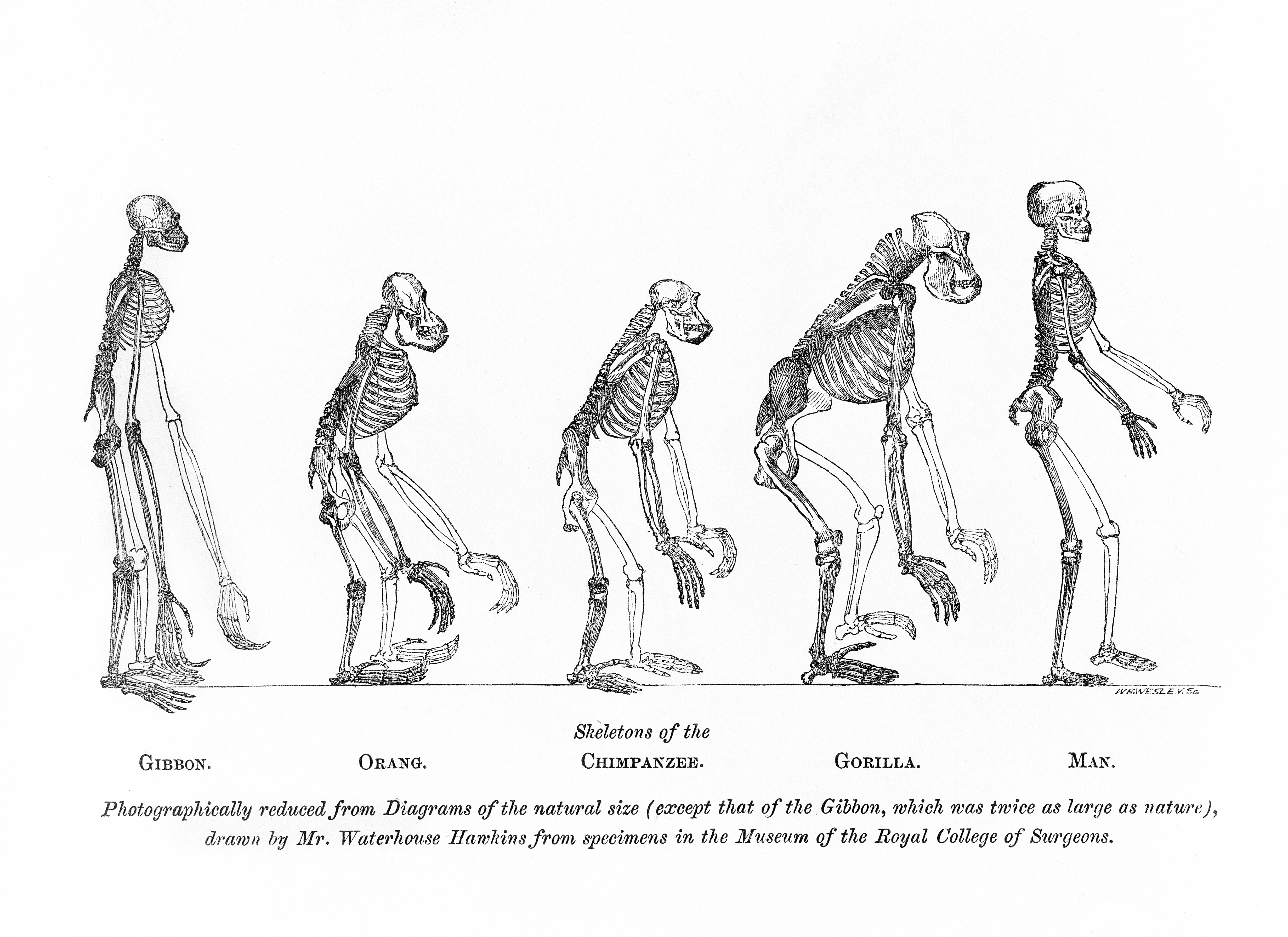 Drawings of coparative skeletons of the gibbon, orangutan, chimpanzee, gorilla and human. General Collections